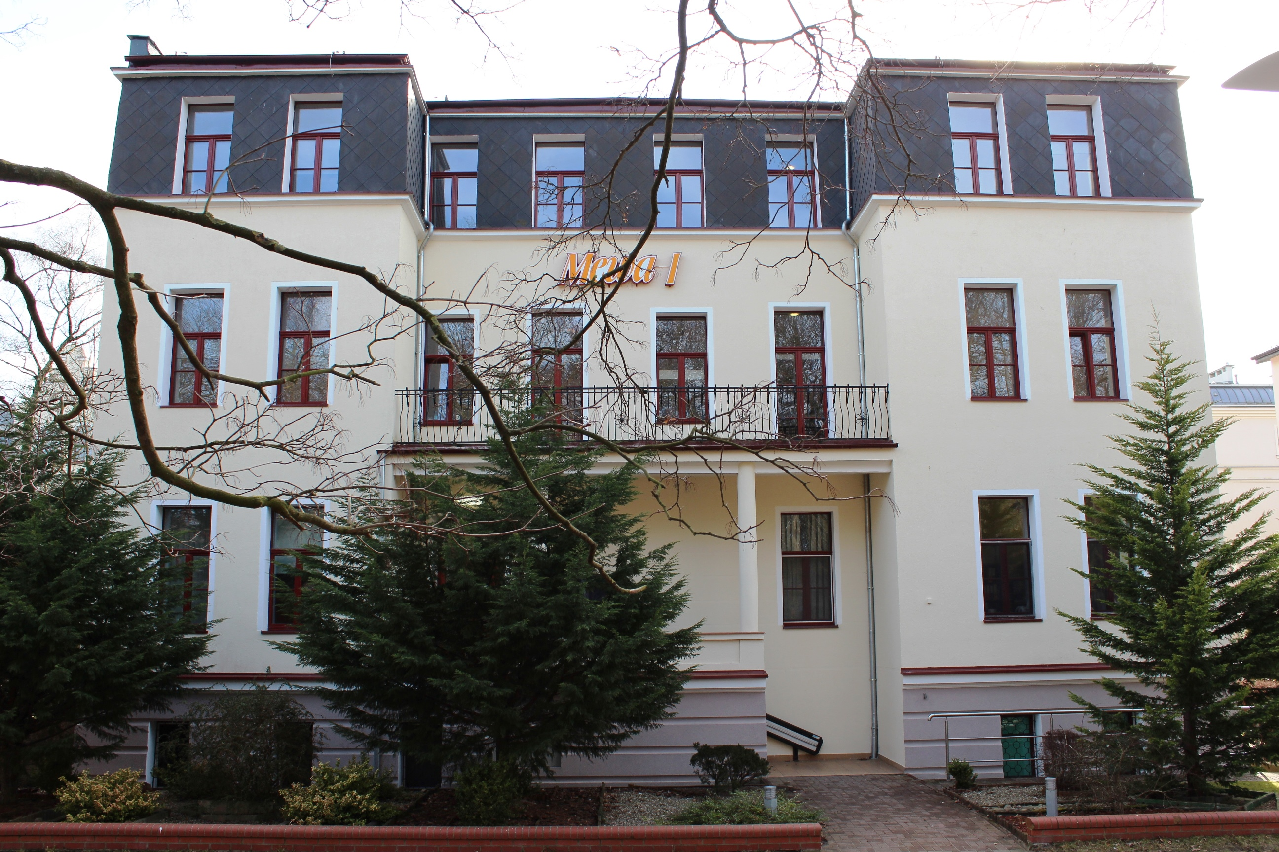 Mewa I Sanatorium in Kołobrzeg - pavilion B